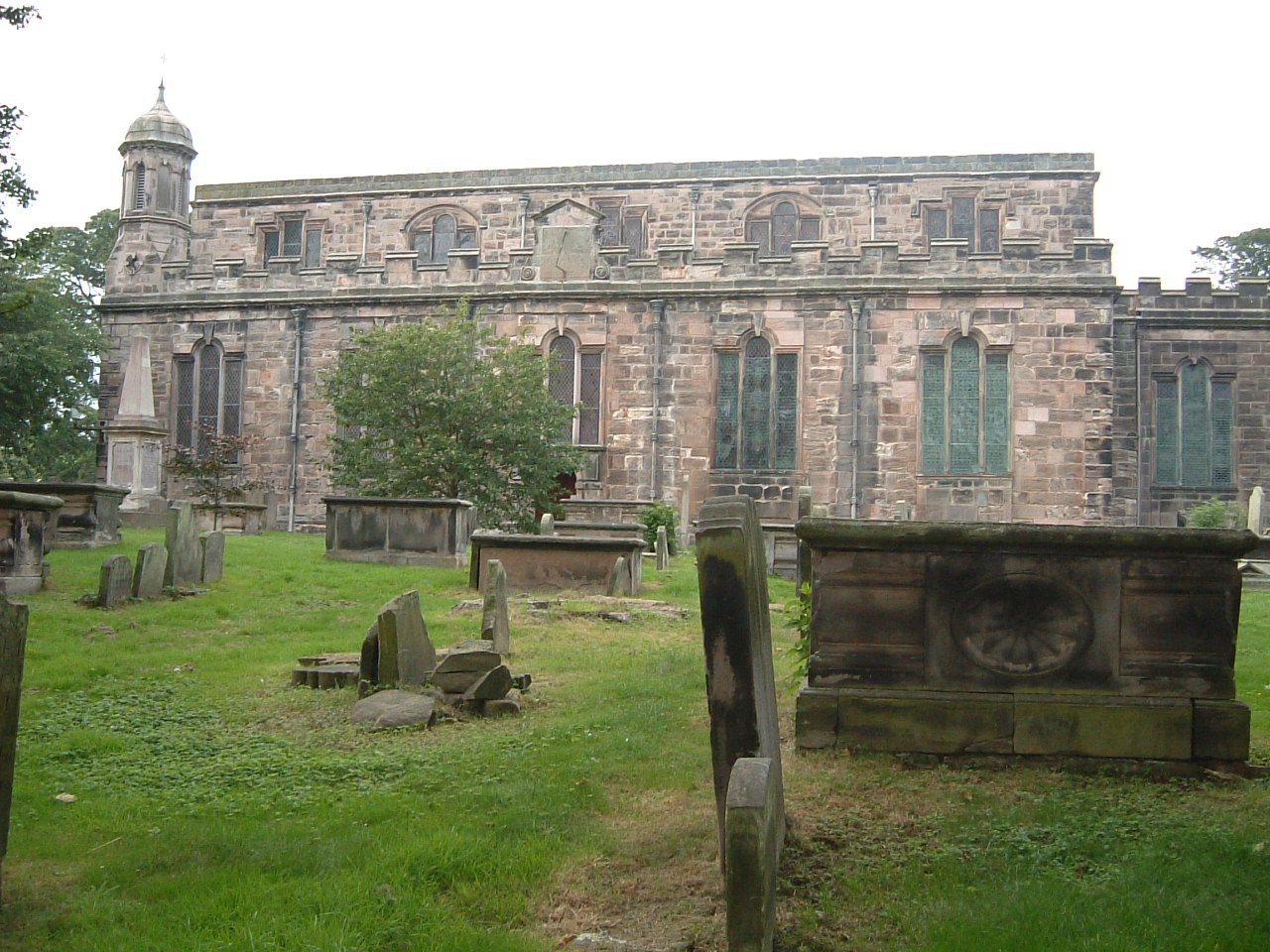 Holy Trinity church, Berwick upon Tweed, Northumberland, seen from the south